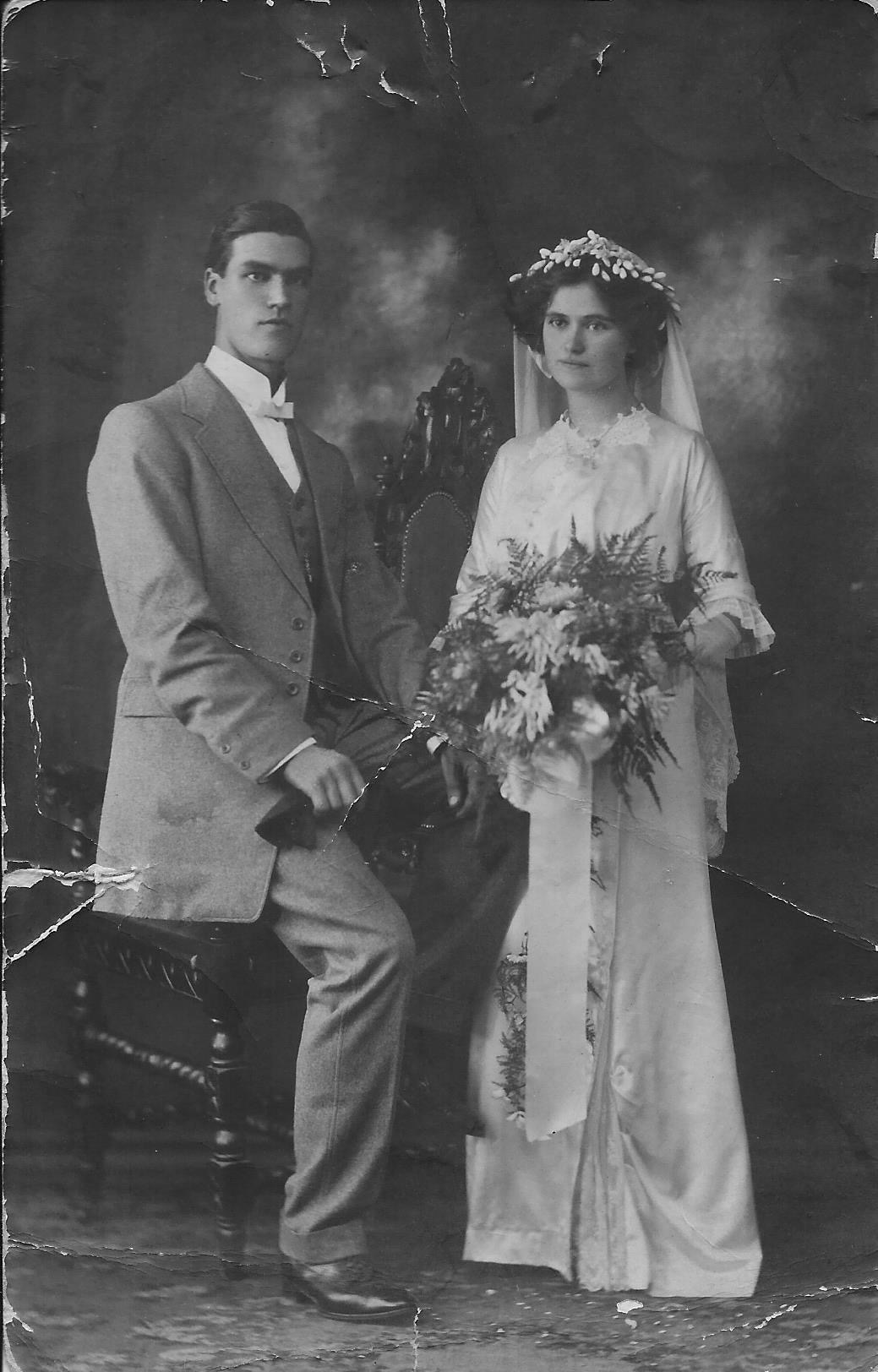 Wedding day in Petersham, Sydney 1913